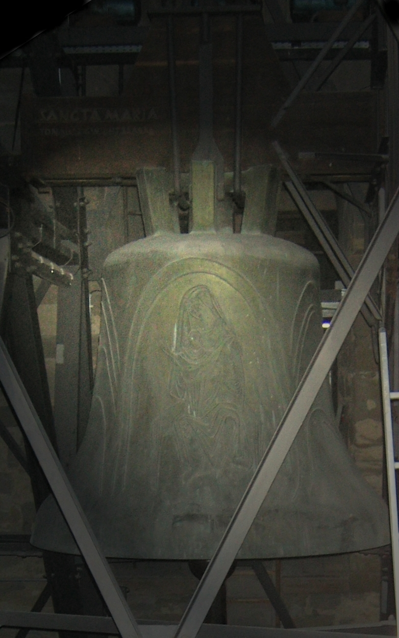 Description – „Sancta Maria“. Die größte Glocke des Münsters (gis°). Source – „own work“ Date – April 2006 Author – Andreasdziewior